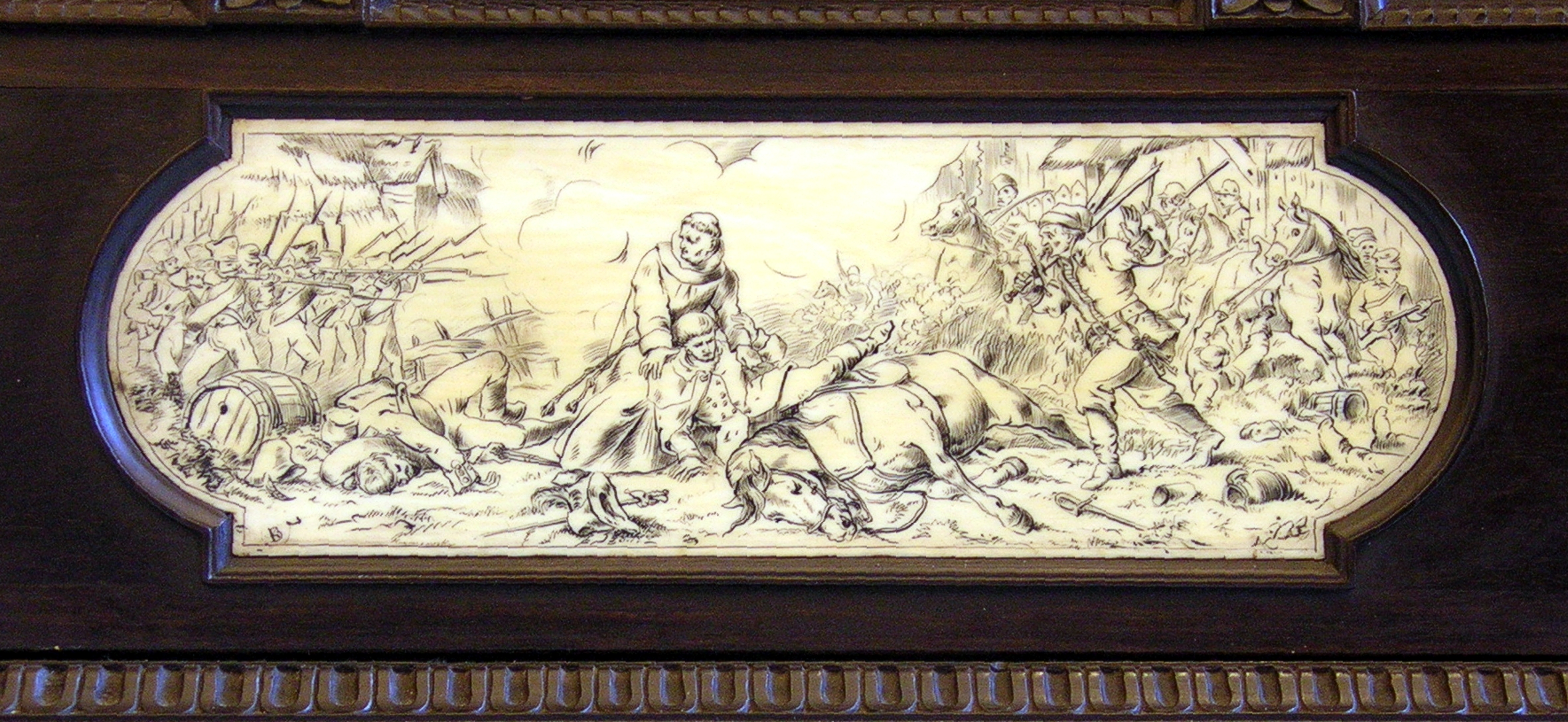 Ebony casket with ivory relief "Battle" destined for the reception of manuscript of epic poem "Pan Tadeusz" by Adam Mickiewicz. Casket was made in 1873 by sculptor Józef Brzostowski. Housed in the collection of the Ossolinski National Institute in Wrocław.